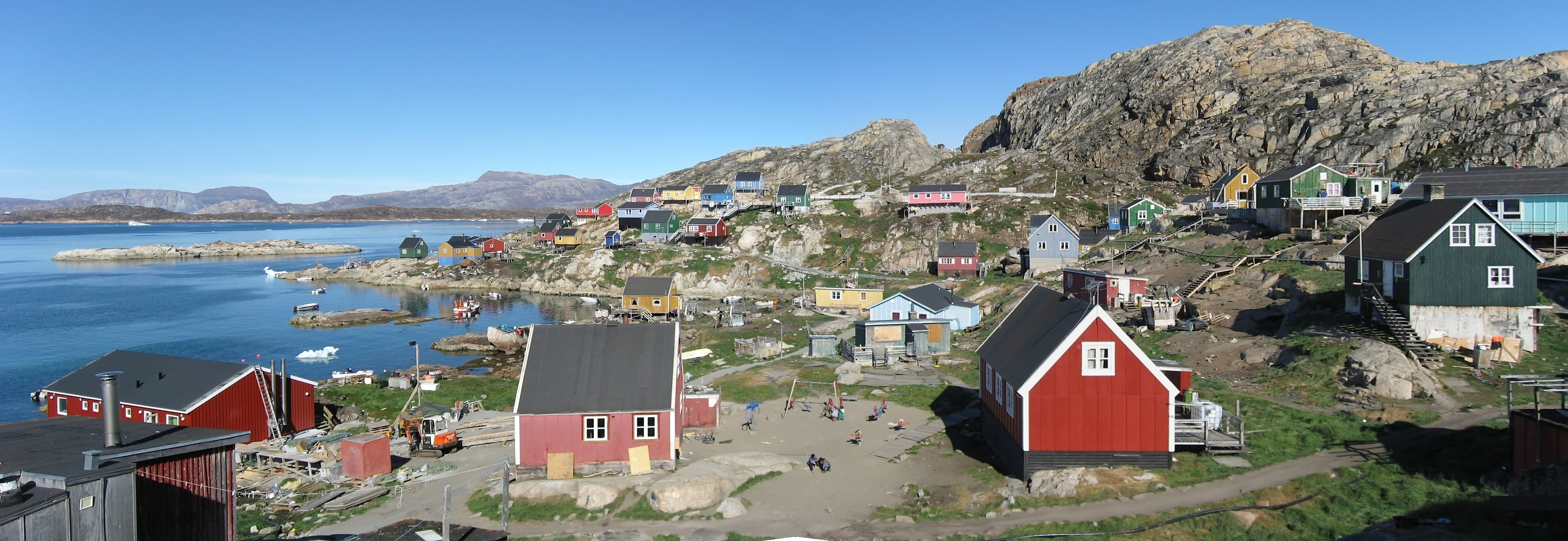 The settlement Aappilattoq east of Upernavik in Greenland. Two handheld photographs taken with a Canon IXUS DIGITAL 800 IS stitched in Hugin ver. 0.7 beta 5. Cropped in GIMP and noise reduced with Noiseware.